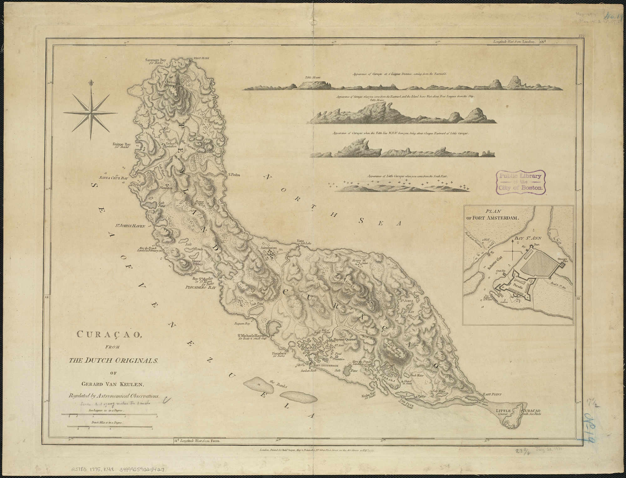 Zoom into this map at . Author: Keulen, Gerard van Publisher: Sayer, Robert Date: 1775 Location: Curaçao (Netherlands Antilles), Willemstad (Netherlands Antilles) Dimension 45x60cm Scale: [ca. 1:120,000] Call Number: G5180 1775 .K48